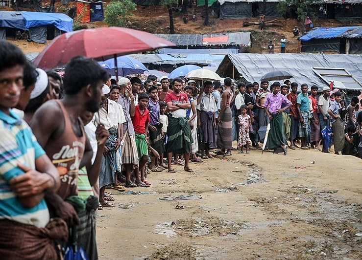 Rohingya displaced Muslims